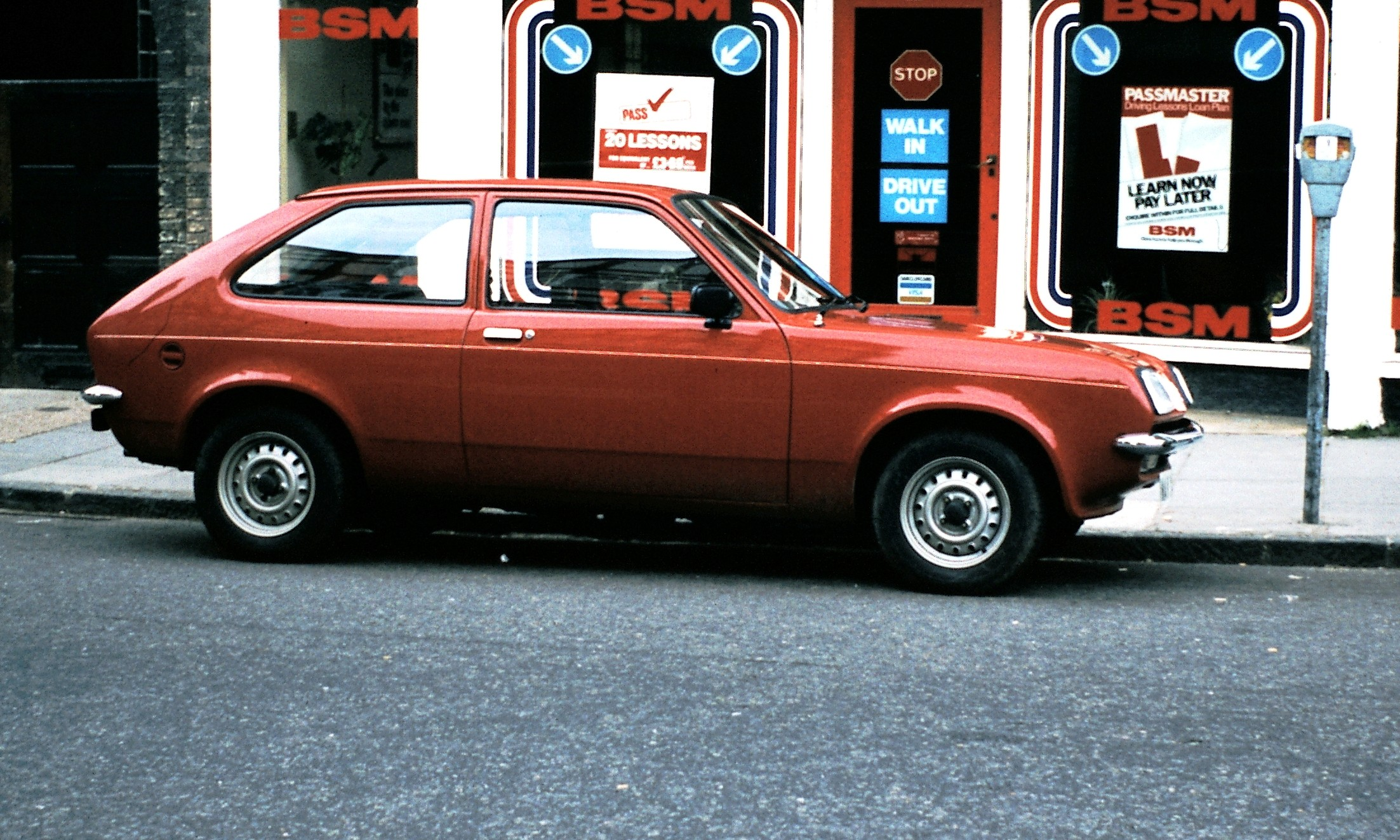 Vauxhall Chevette outside UK Car Driving school